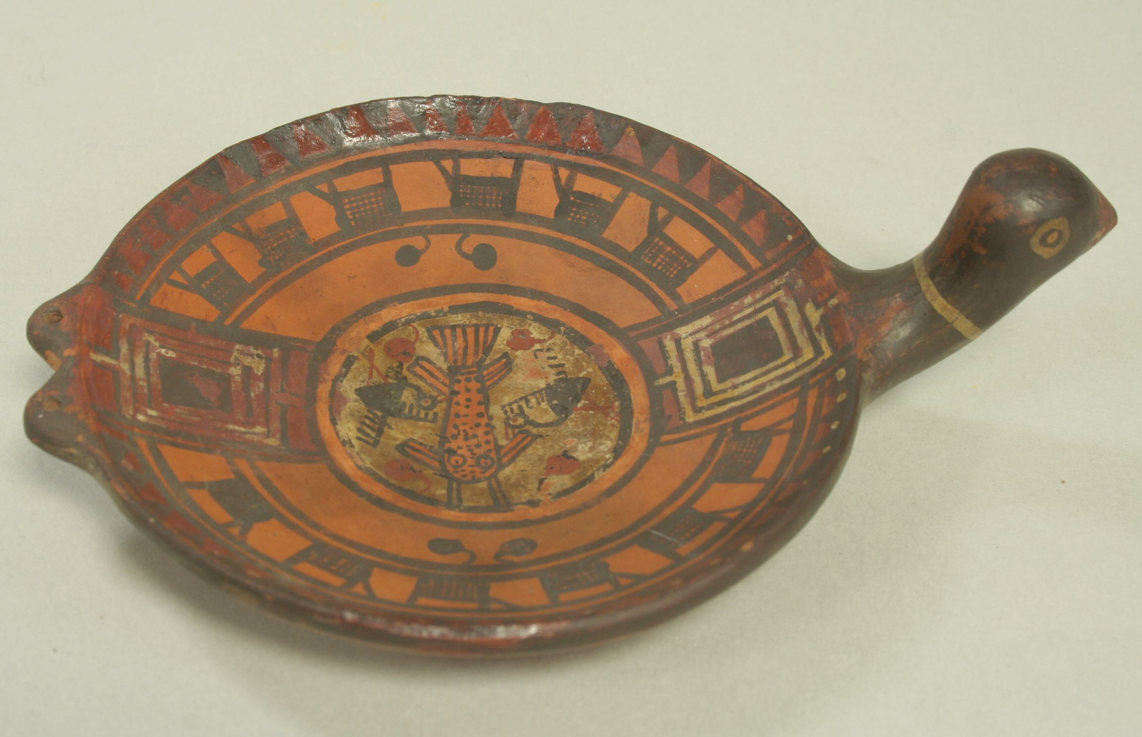 Inca; Dish; Ceramics-Containers